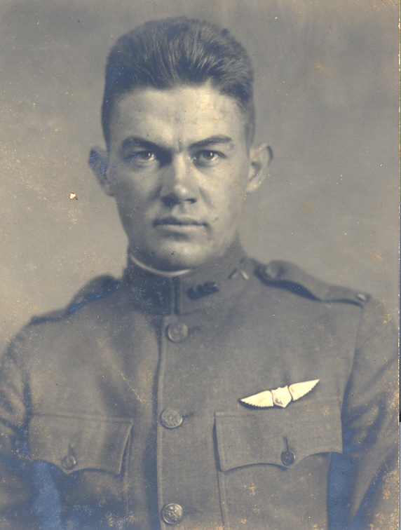 Lt. Ernest Emery Harmon Army Signal Corps Air Service pilot ca 1918